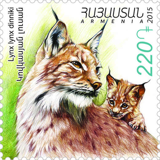 Armenian Stamped issued in 2015